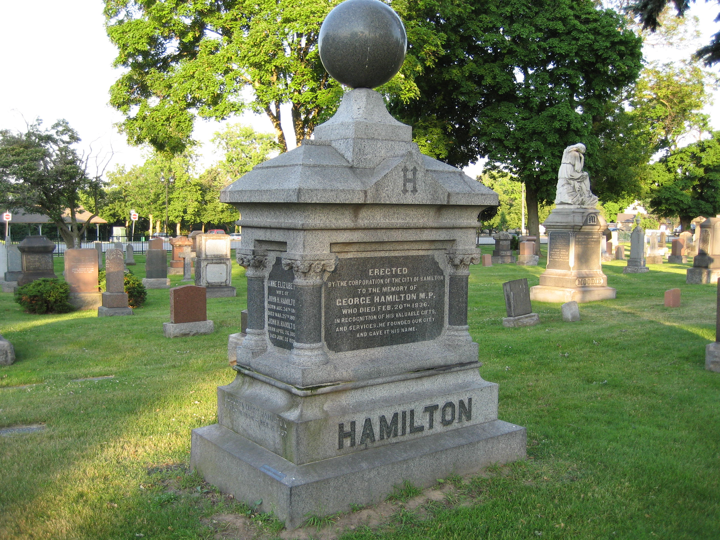 George Hamilton tombstone, Hamilton Cemetery, City founder of Hamilton, Ontario